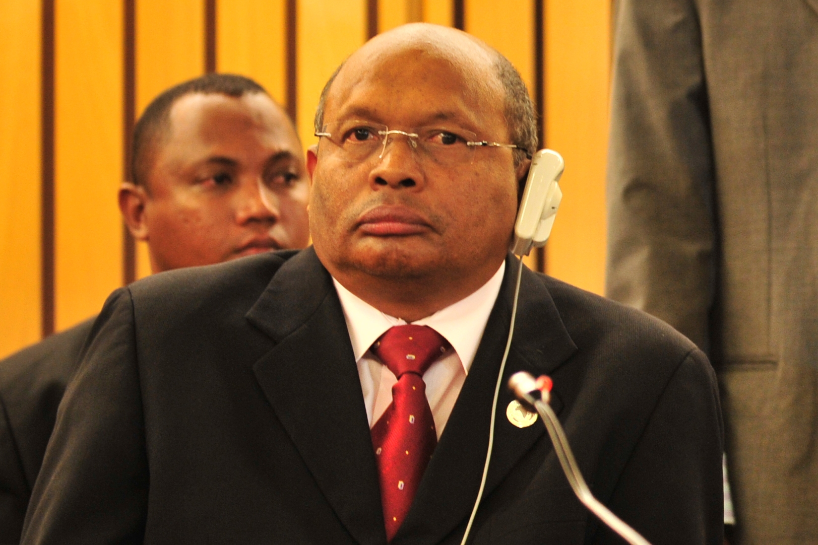 Marcel Ranjeva, Foreign Minister of Madagascar at a press conference at the United Nations building in Addis Ababa, Ethiopia, during the 12th African Union (AU) Summit, Feb. 3, 2009.